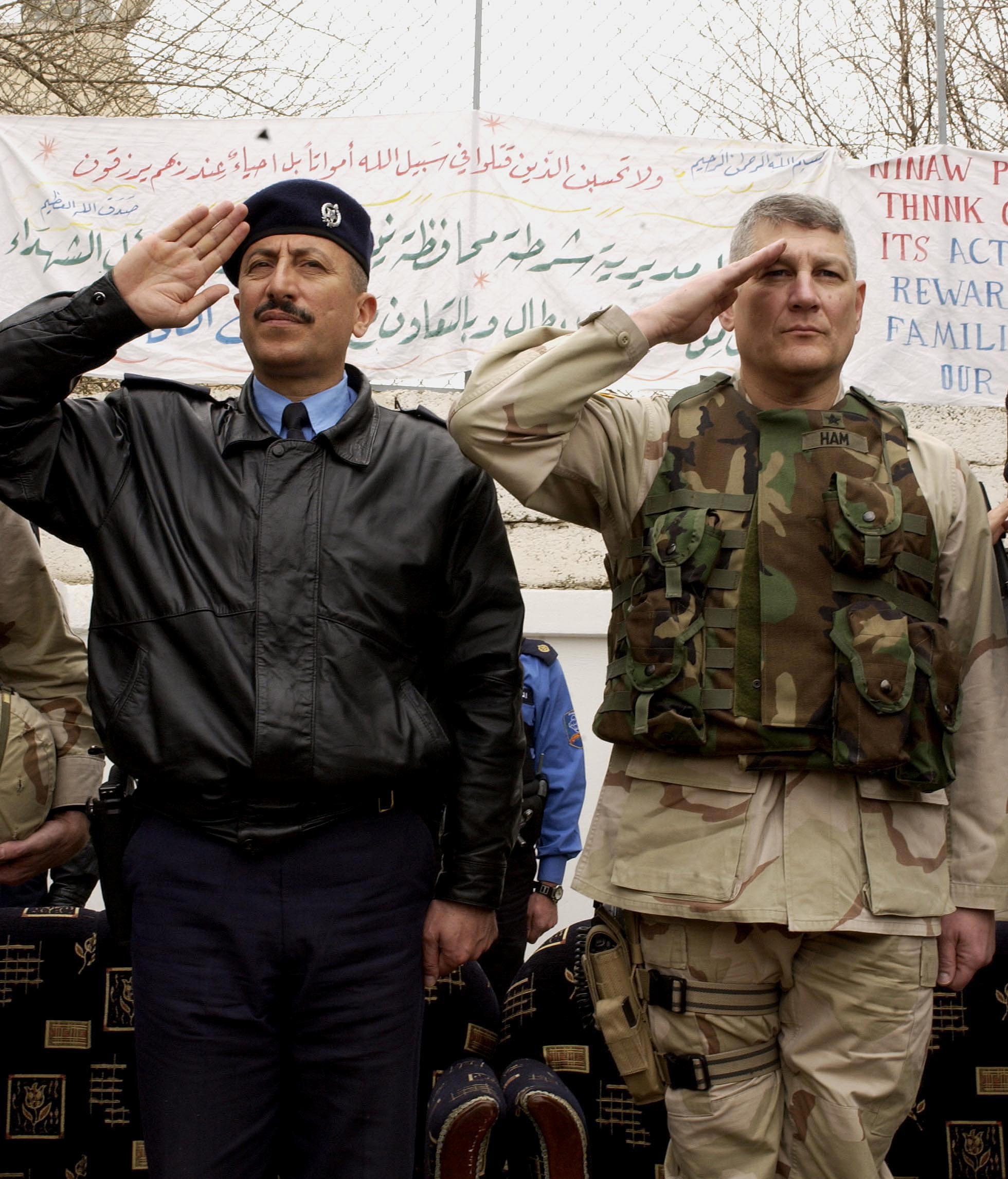 Mosul Chief of Police Mohamad Barhawee and Task Force Olympia commander, Brig. Gen. Carter Ham, salute during the Iraqi National Anthem at the ribbon cutting ceremony for the Althaqafa Police Station in Mosul, Iraq. The ceremony celebrated the completion of reconstruction after the Jan. 31 suicide attack.